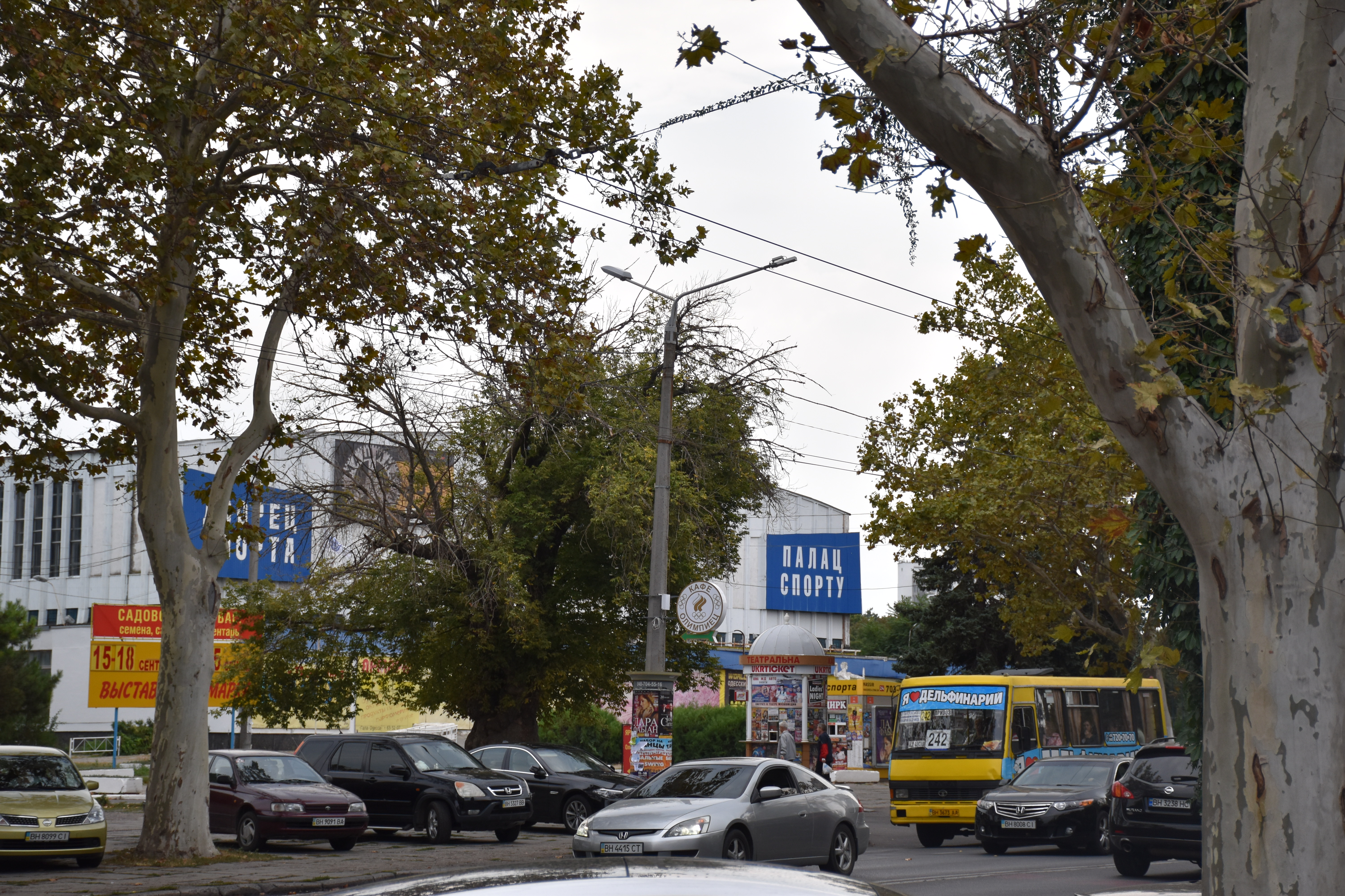 Odessa Palace of Sports at Shevchenko Avenue.